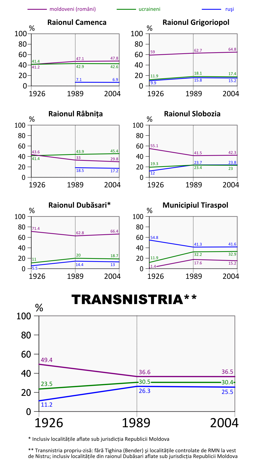 Graph representing the evolution of the 3 main ethnic groups in Transnistria at raion and municipality level according to the Soviet censuses of 1926 and 1989, and the census organized by the Transnistrian sepparatist authorities in 2004.